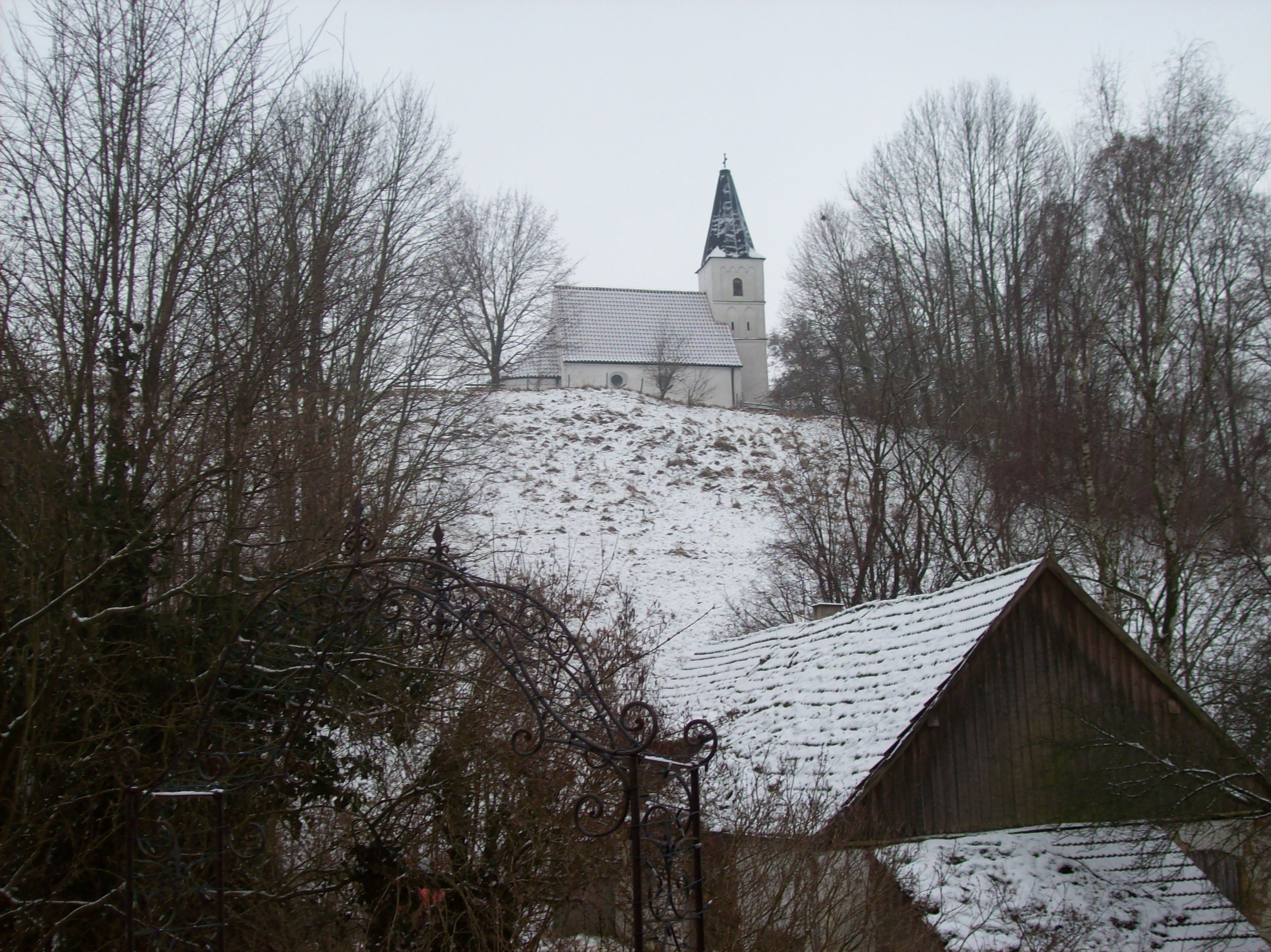 Wartenberg Nicholas-chapel